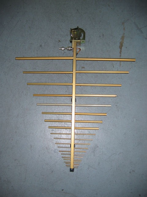 Image of a log-periodic dipole array.